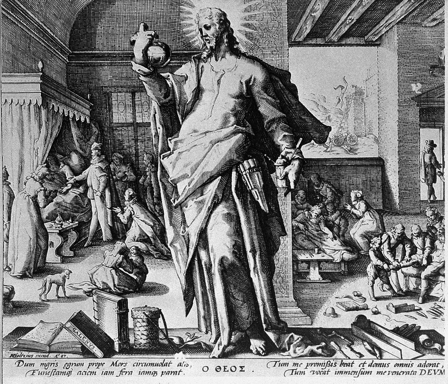 The physician as Christ Iconographic Collections Keywords: Hendrick Goltzius